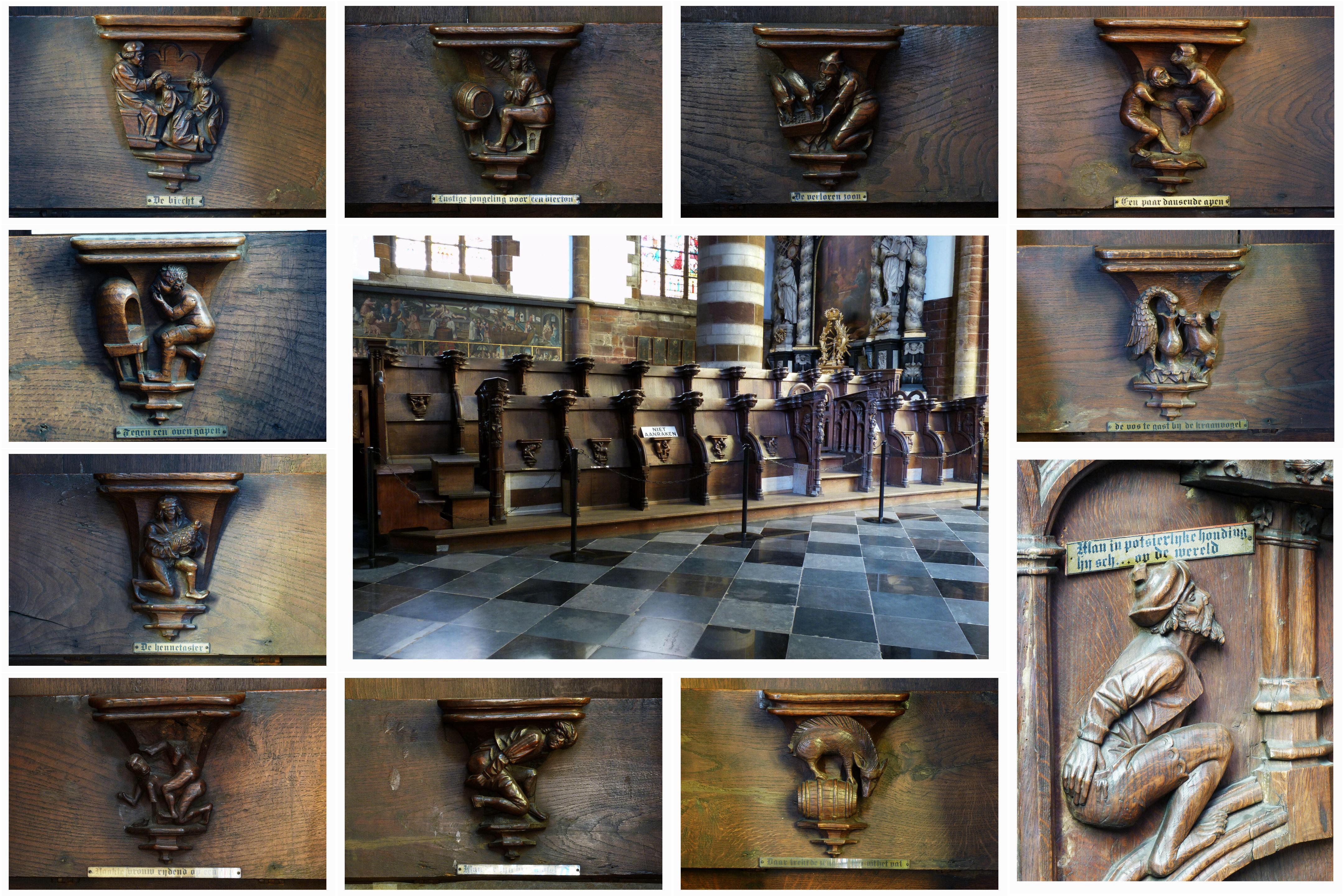 Onze Lieve VrouweKerk Aarschot Misericorde